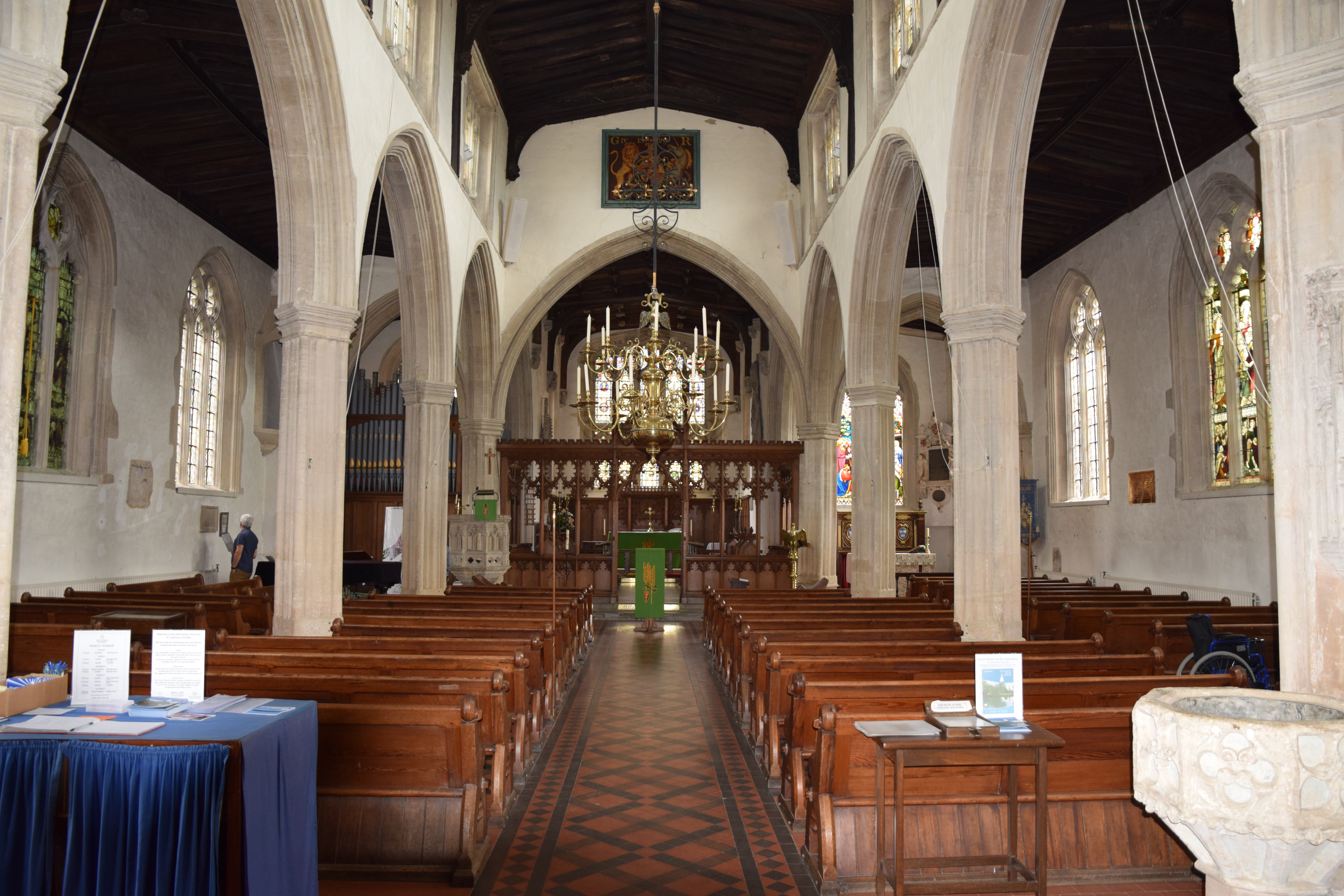 Lechlade Church (Saint Lawrence), Gloucestershire, 6 September 2018. Perpendicular, 15th Century naver and chancel (1470-76), early 16th Century nave clerestory and roof, north porch, tower and spire. Pictured is the nave, ailes and chancel arch with the Royal Arms of George IV above. The chandelier dates from 1730 and is by Richard Ainge.